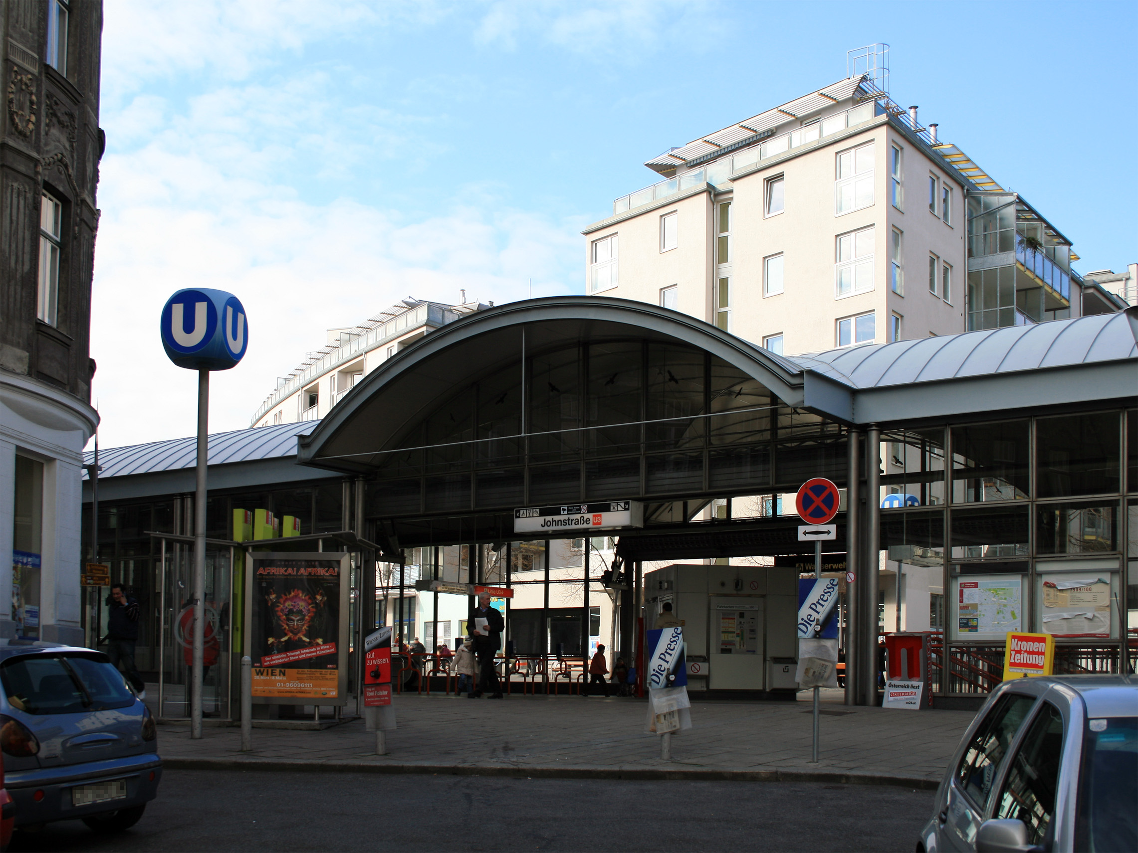 Station Johnstraße, Vienna U-Bahn, line U3